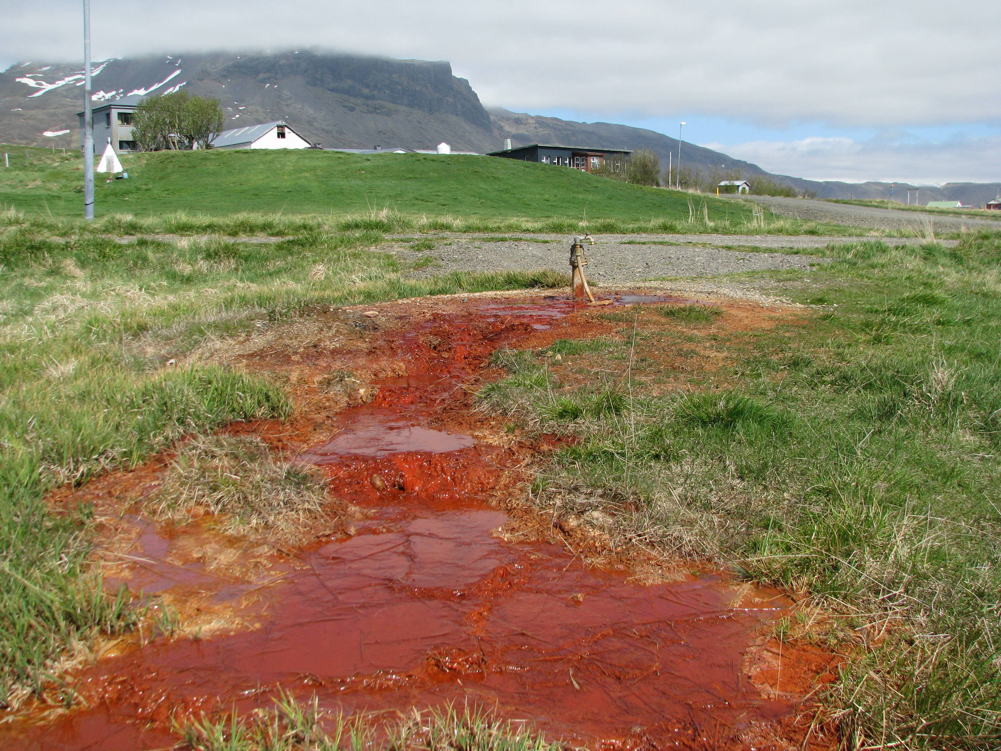 Ölkelda, a mineral spring naer the farm Ölkelde, Iceland.